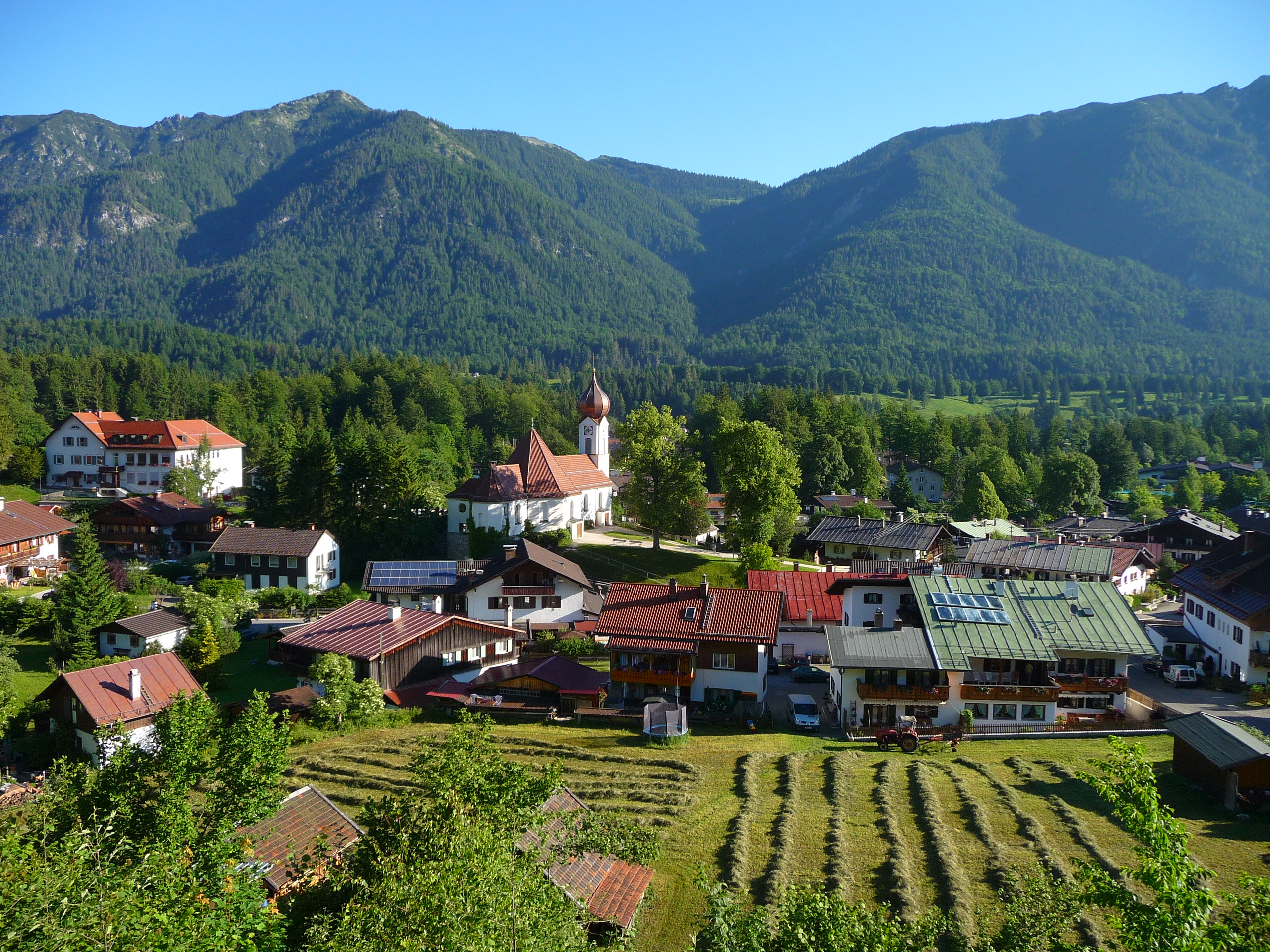 The Bavarian village Grainau with the mountainrange of the Ammergauer Alpen in the background